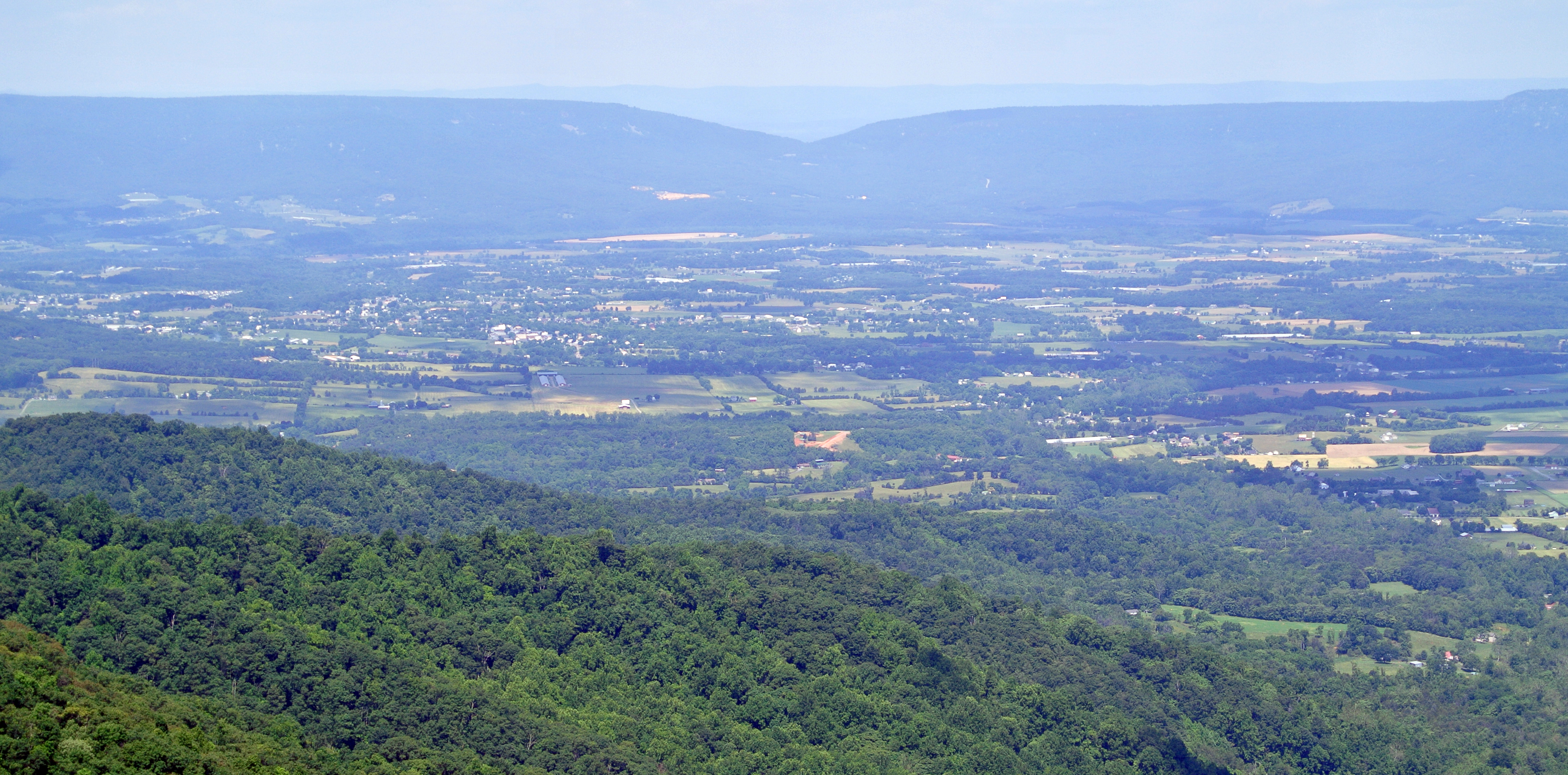 View of Luray, Virginia, and New Market Gap in the distance.